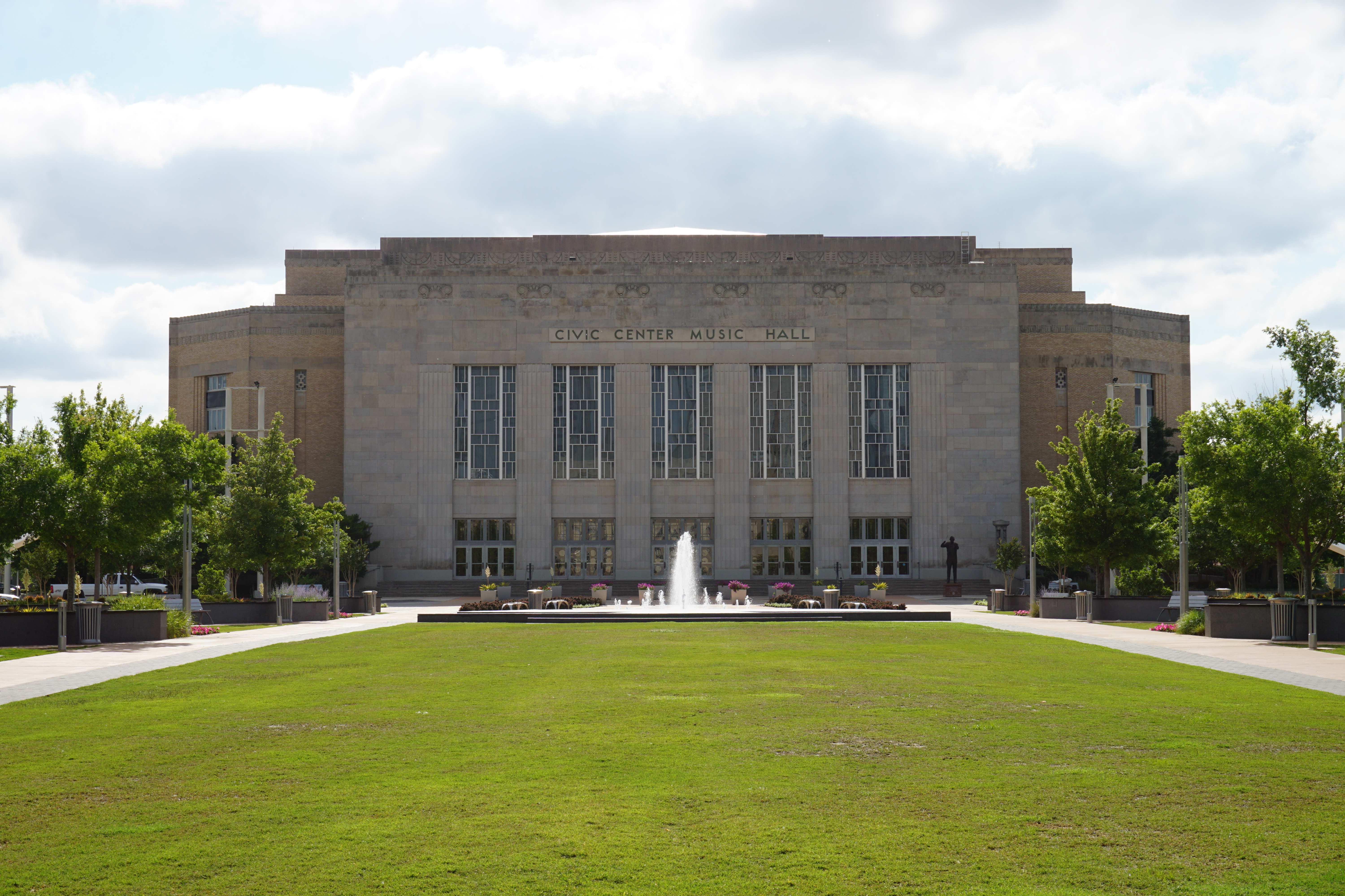 The Civic Center Music Hall in Oklahoma City, Oklahoma (United States).